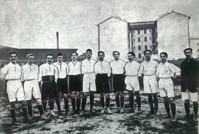 Italian football team at Arena Civica in Milan 15 may 1910 before the match against France. Footballers: Mario De Simoni, Francesco Calì (Captain), Franco Varisco, Domenico Capello, Virgilio Fossati, Attilio Trerè, Franco Bontadini, Giuseppe Rizzi, Aldo Cevenini, Pietro Lana, Arturo Boiocchi, Enrico Debernardi. Head coach: Umberto Meazza.